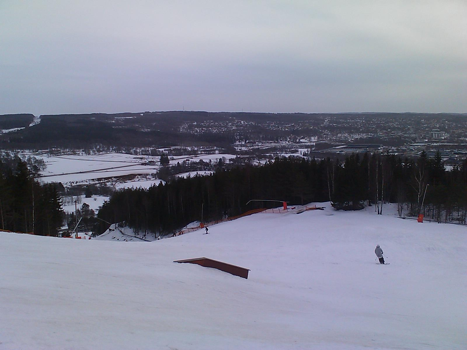 Ulricehamn ski center, Sweden